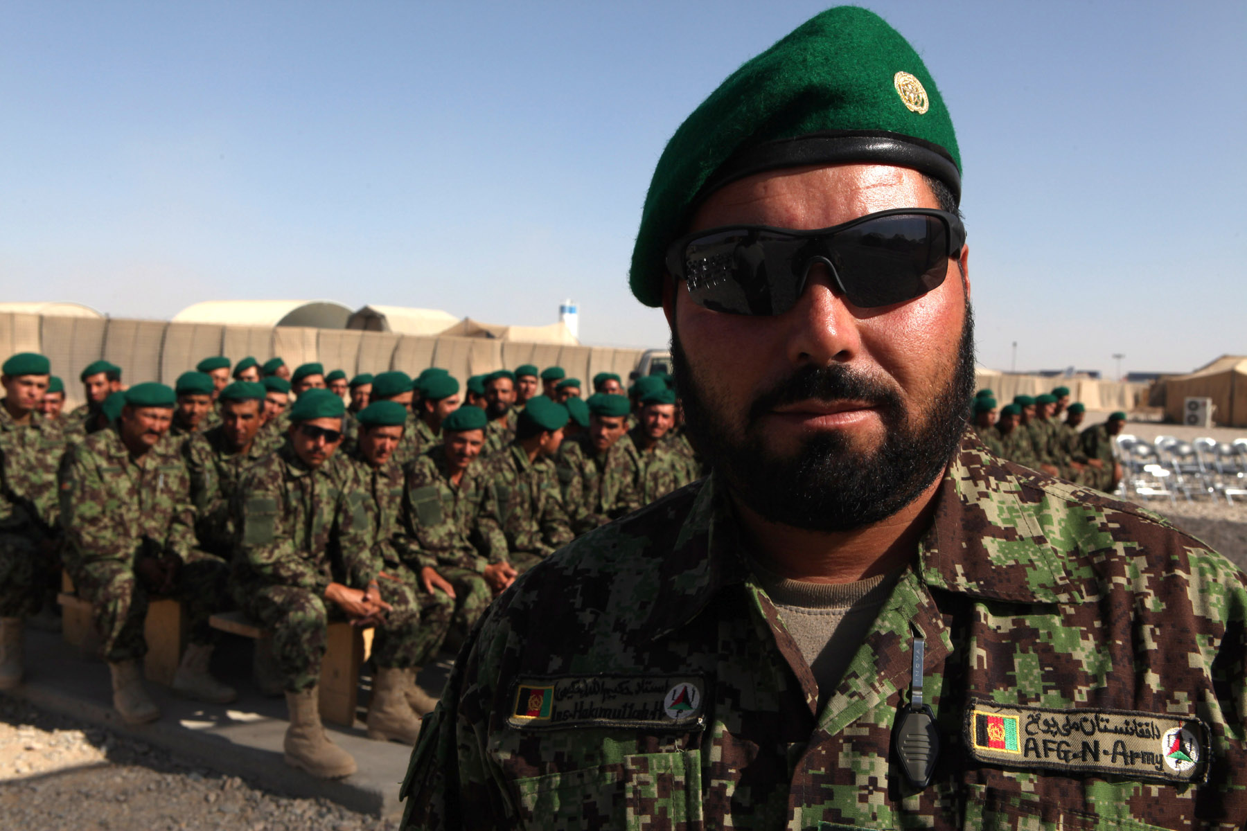 Afghan National Army training instructor Hakeen Uallah waits with his recruits prior to their graduation ceremony at the Joint Security Academy Shorabak on Camp Leatherneck June 16. The graduates joined the ANA's 215th Maiwand Corps following an eight-week basic warrior course. (ISAF photo)